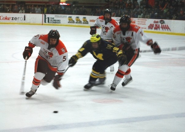 CCHA regular season game between BGSU and U of Michigan on Jan 17, 2009